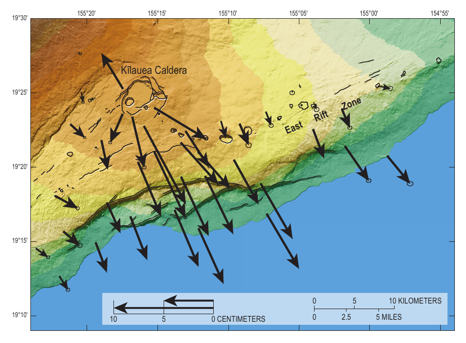 Figure 13 from USGS Professional Paper 1801, Chapter 1, p. 21. Map of the south flank of Kīlauea with vectors showing horizontal displacements in 2003 through 2006 above the Hilina slump, relative to other stations on the island of Hawaii. Measured by the Hawaii Volcano Observatory using the Global Positioning System.